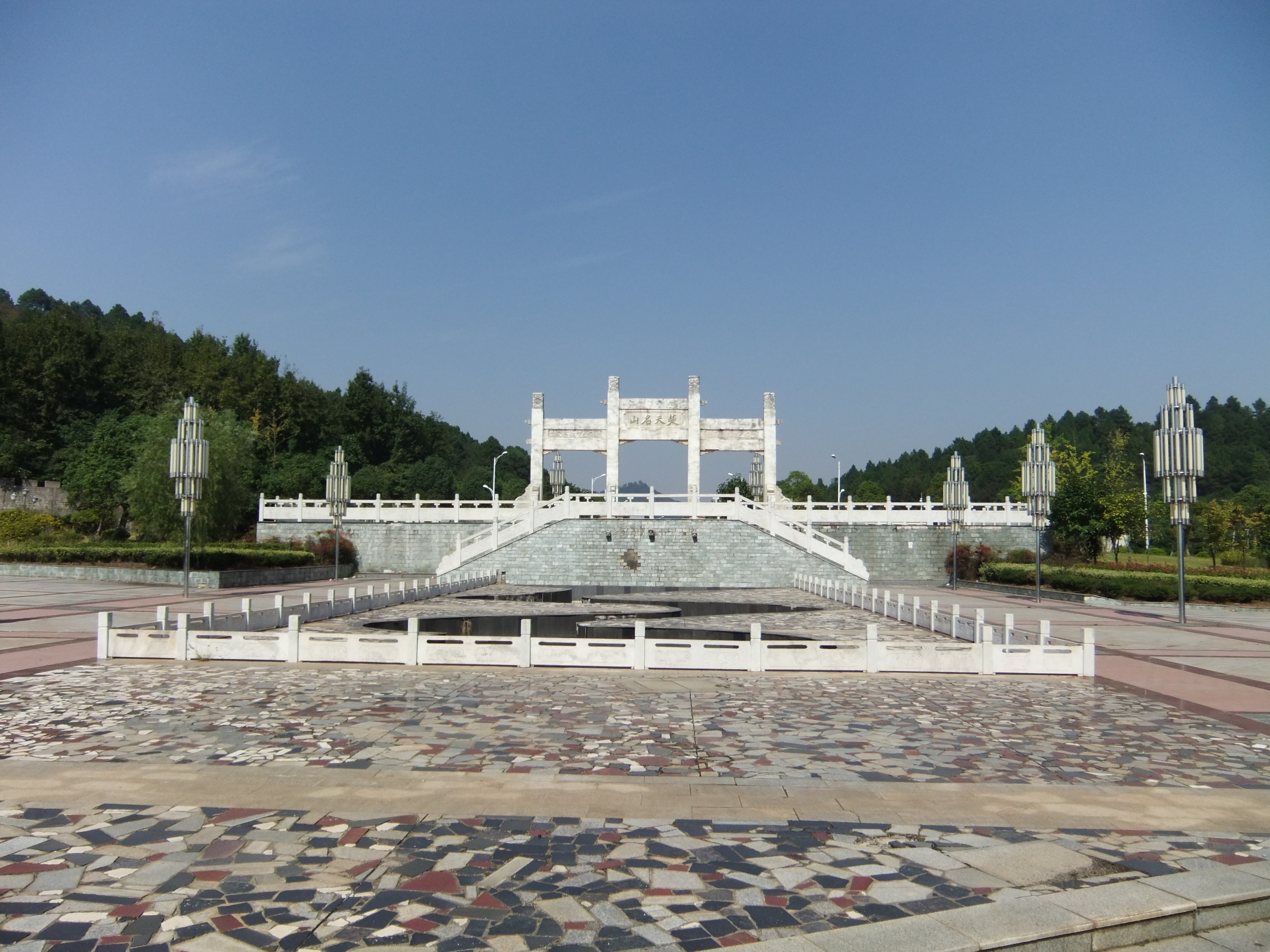 Longquanshan Scenic Area (in Jiangxi District, southeast of Wuhan) and its vicinity. A modern cemetery, Xiao'enyuan, is nearby